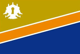 San Felipe